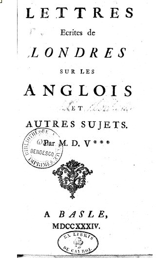 1734 edition title page of Lettres anglaises by Voltaire